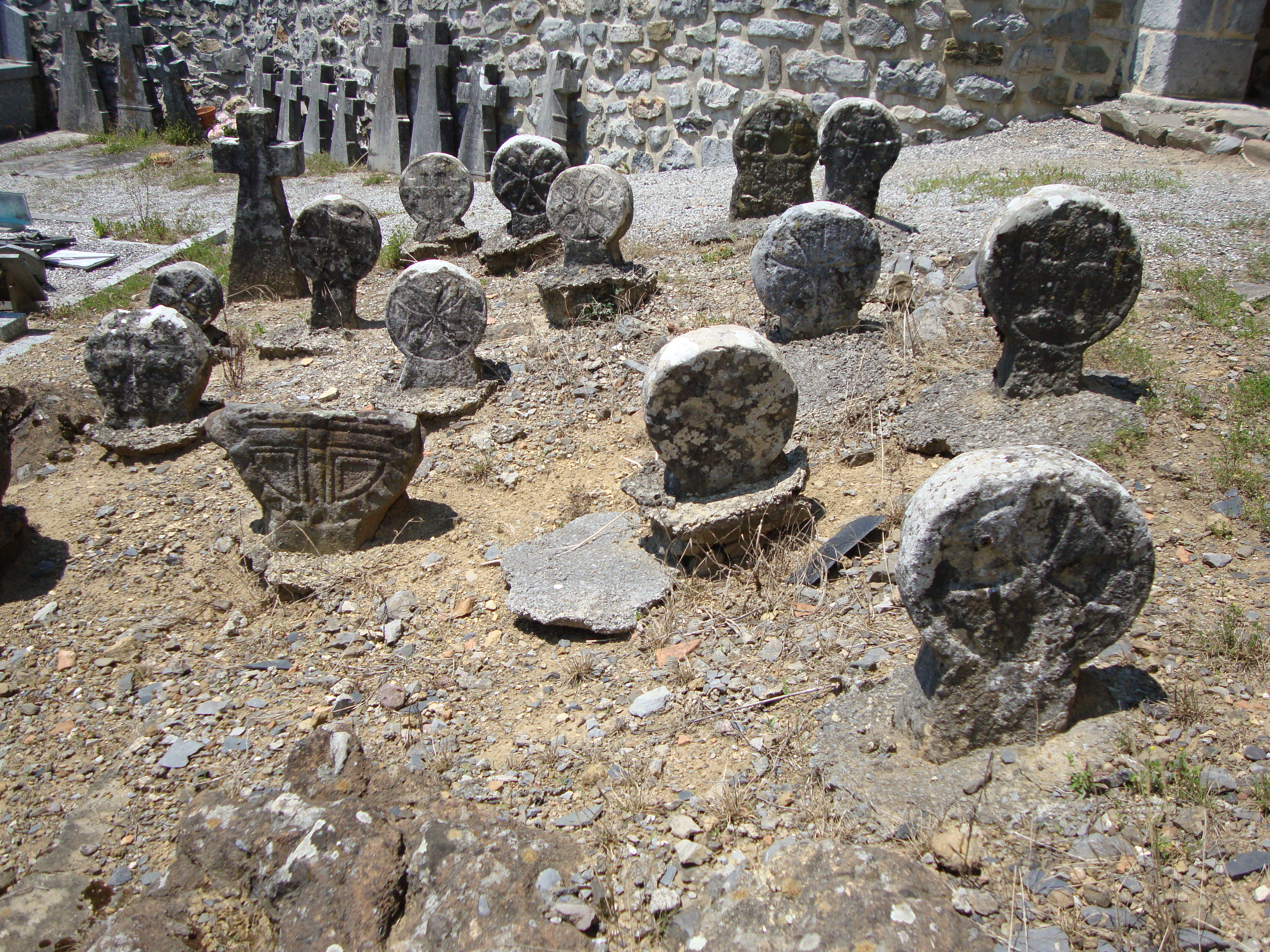 Etchebar (Pyr-Atl, Fr) old discoidal steles